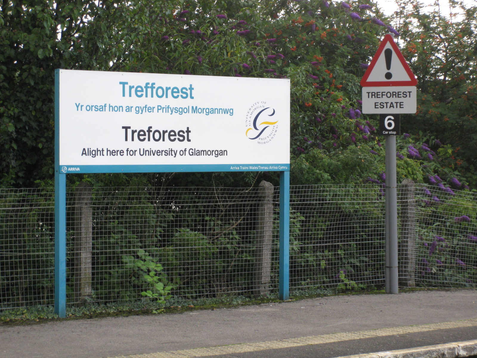 Bilingual station sign at Treforest railway station, Wales.